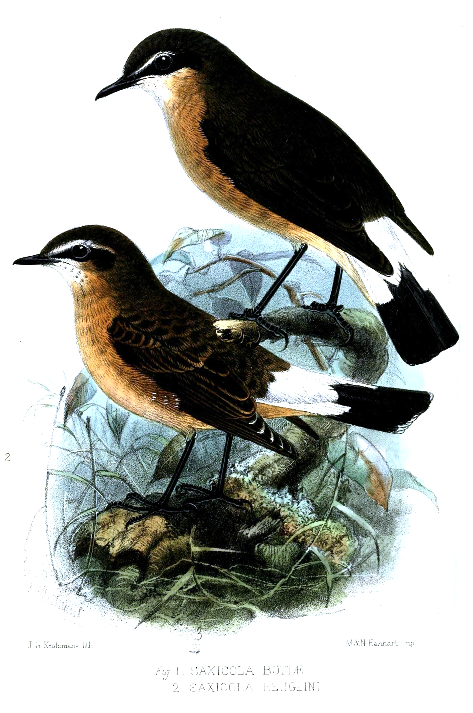 Saxicola bottae = 'Oenanthe bottae Saxicola heuglini = Oenanthe heuglini [1]